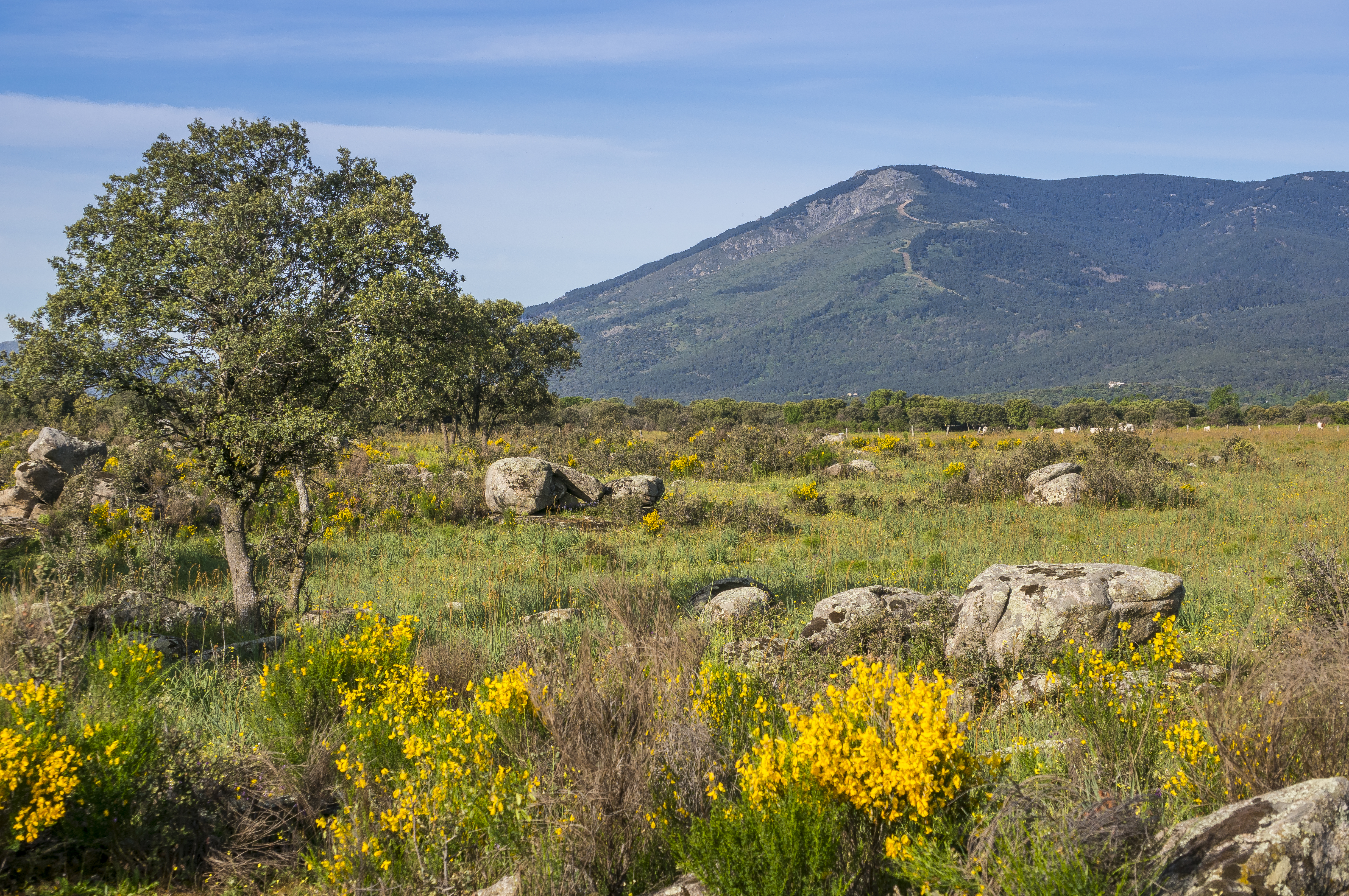 Alpedrete, Spain